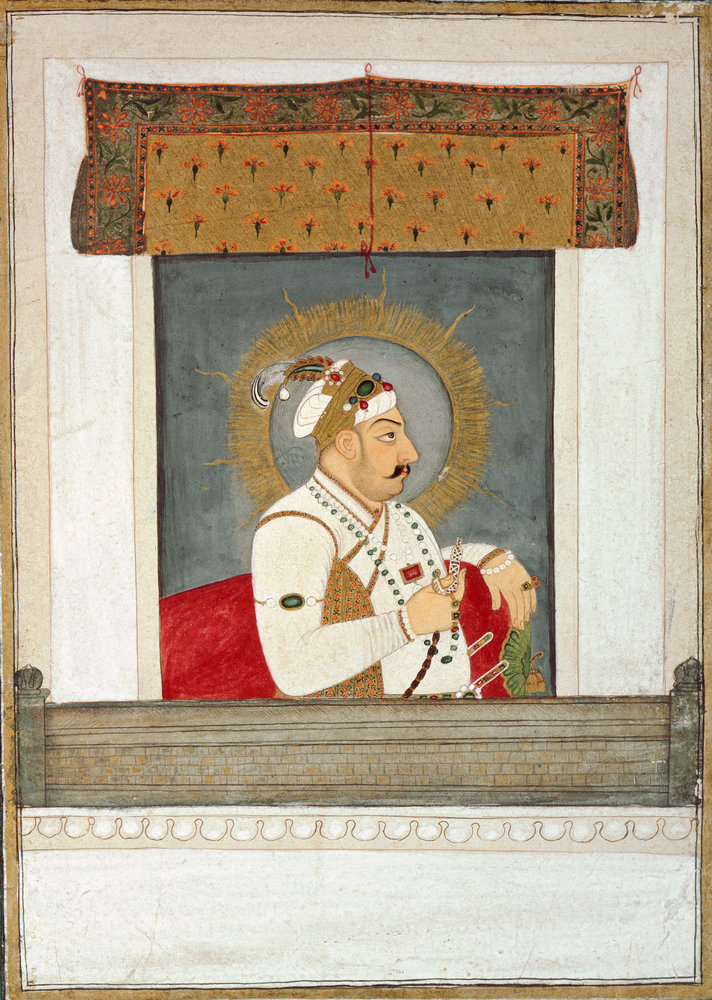 A portrait of the Emperor, Muhammad Shah standing at his palace window (known as the viewing window) so that his public audience can see him. A customary tradition at the time. Ascribed to Govardhan II, c. 1738.